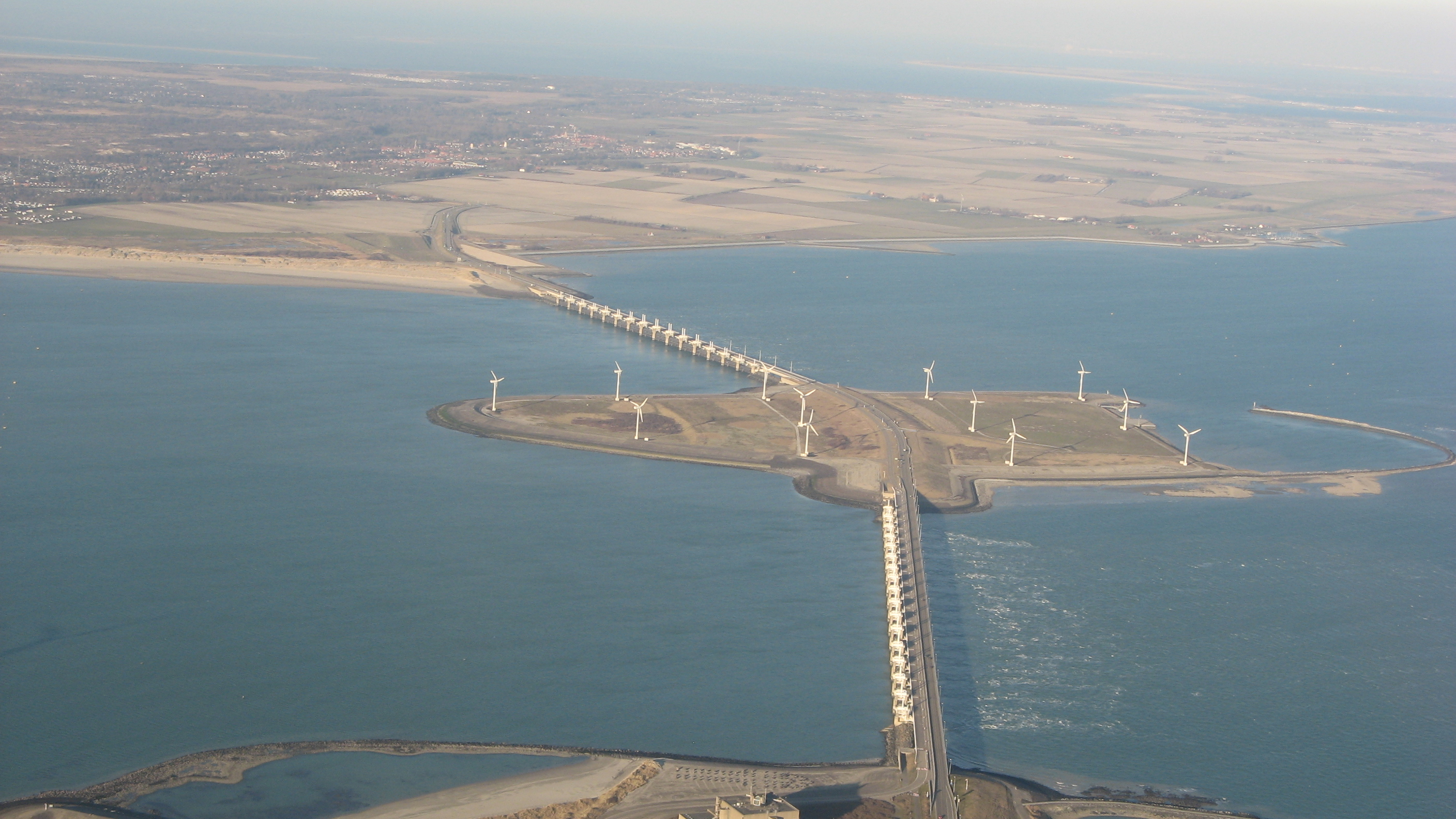 The Oosterscheldekering seen from the sky.